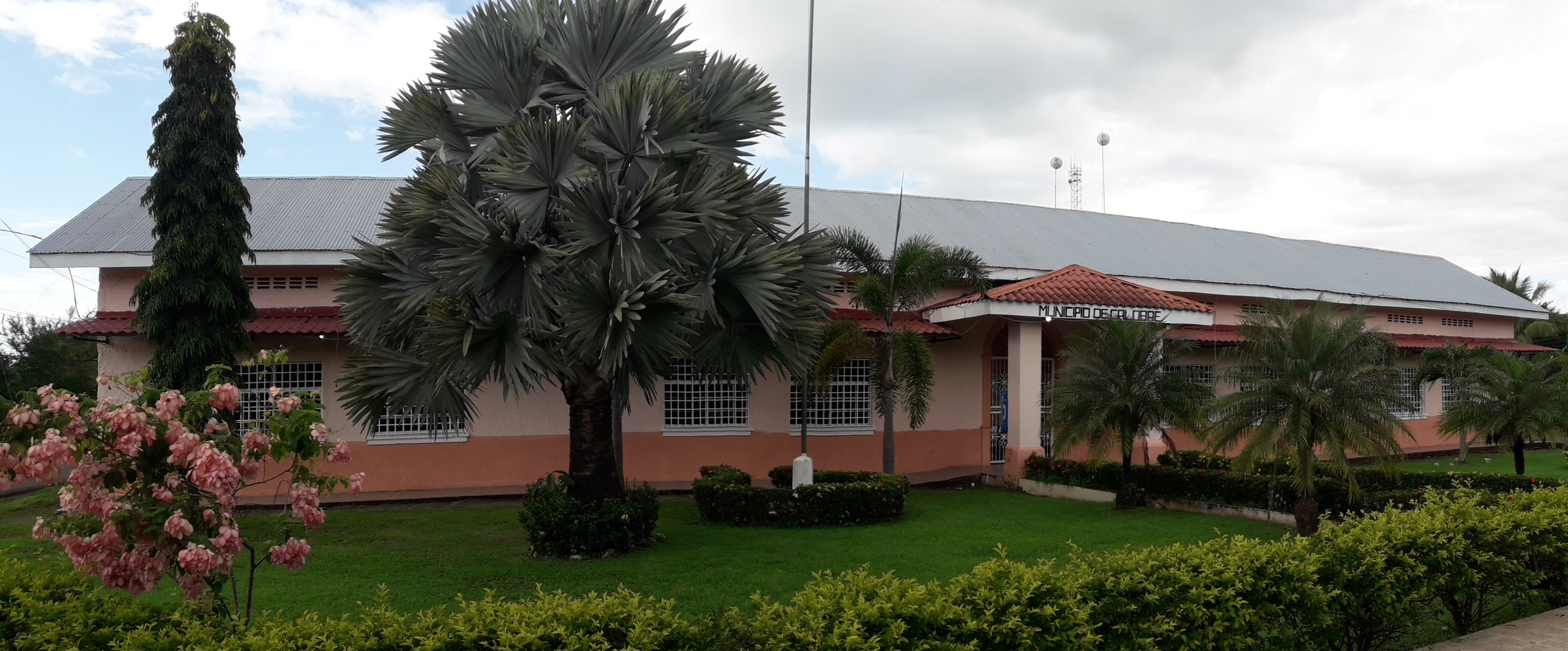 Municipal building